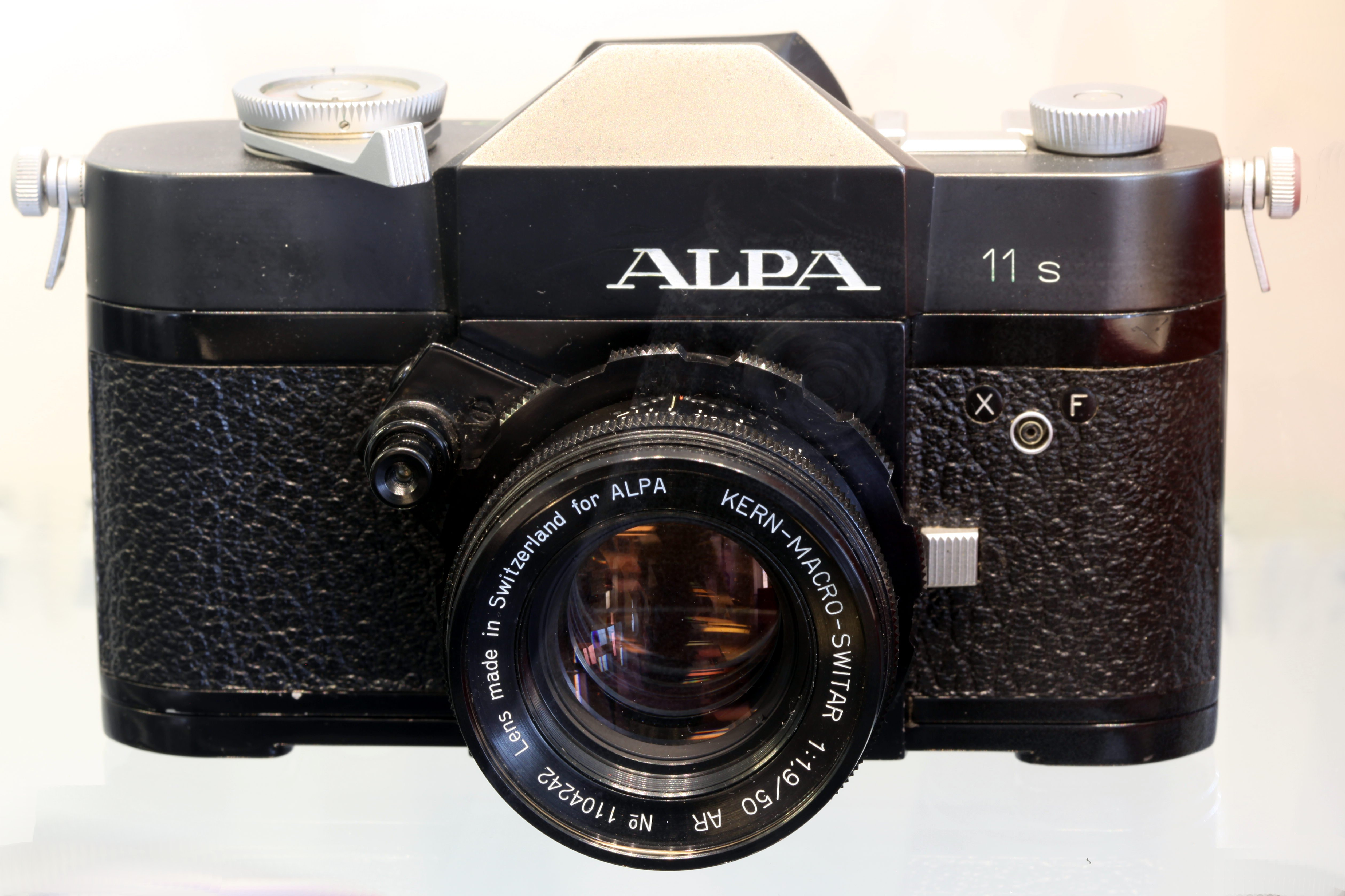 Alpa camera. On display at Vevey photography museum.